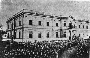 Monastir Evangelismos Greek Hospital